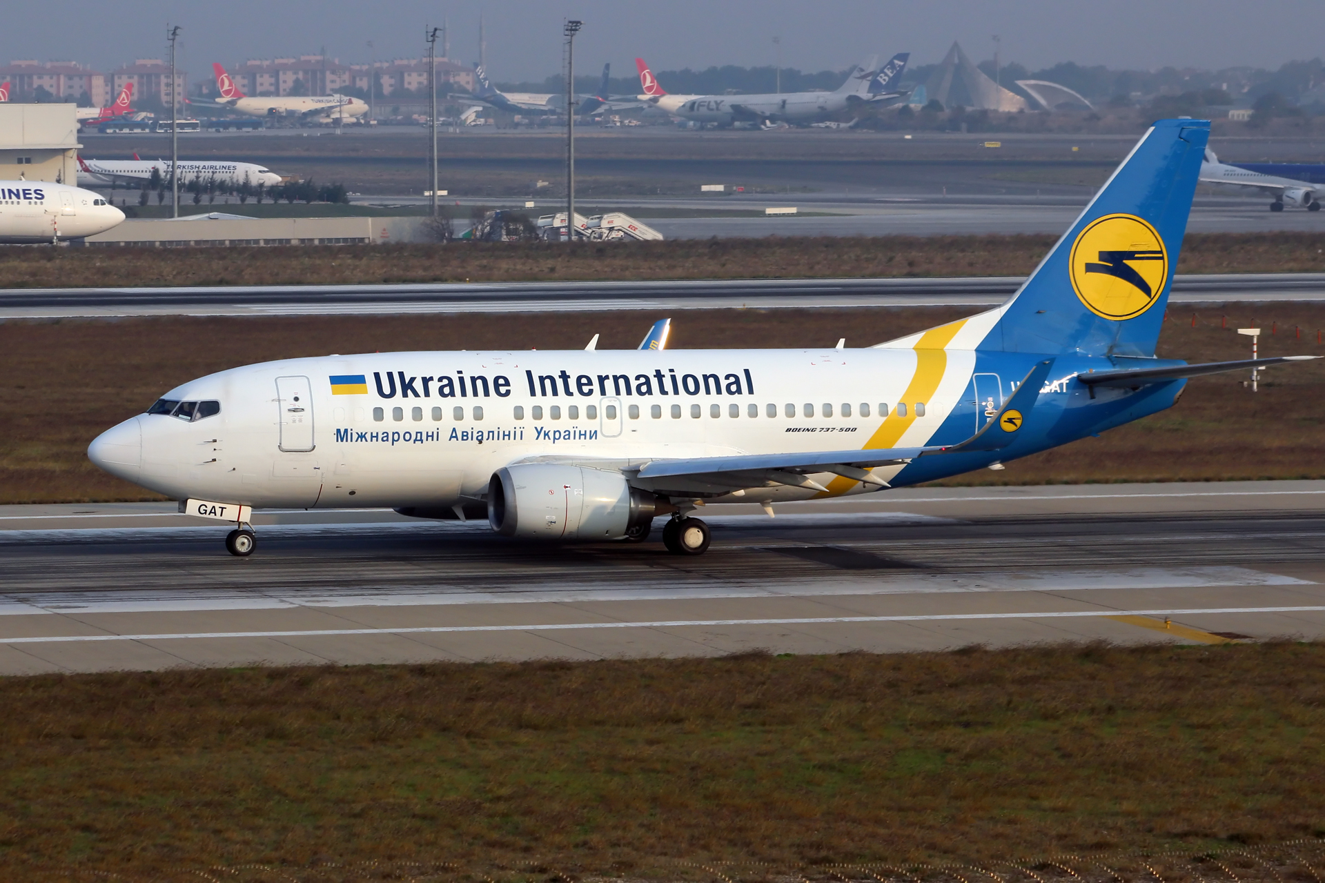 Ukraine International Airlines Boeing 737-500 preparing to depart Istanbul Atatürk International Airport.